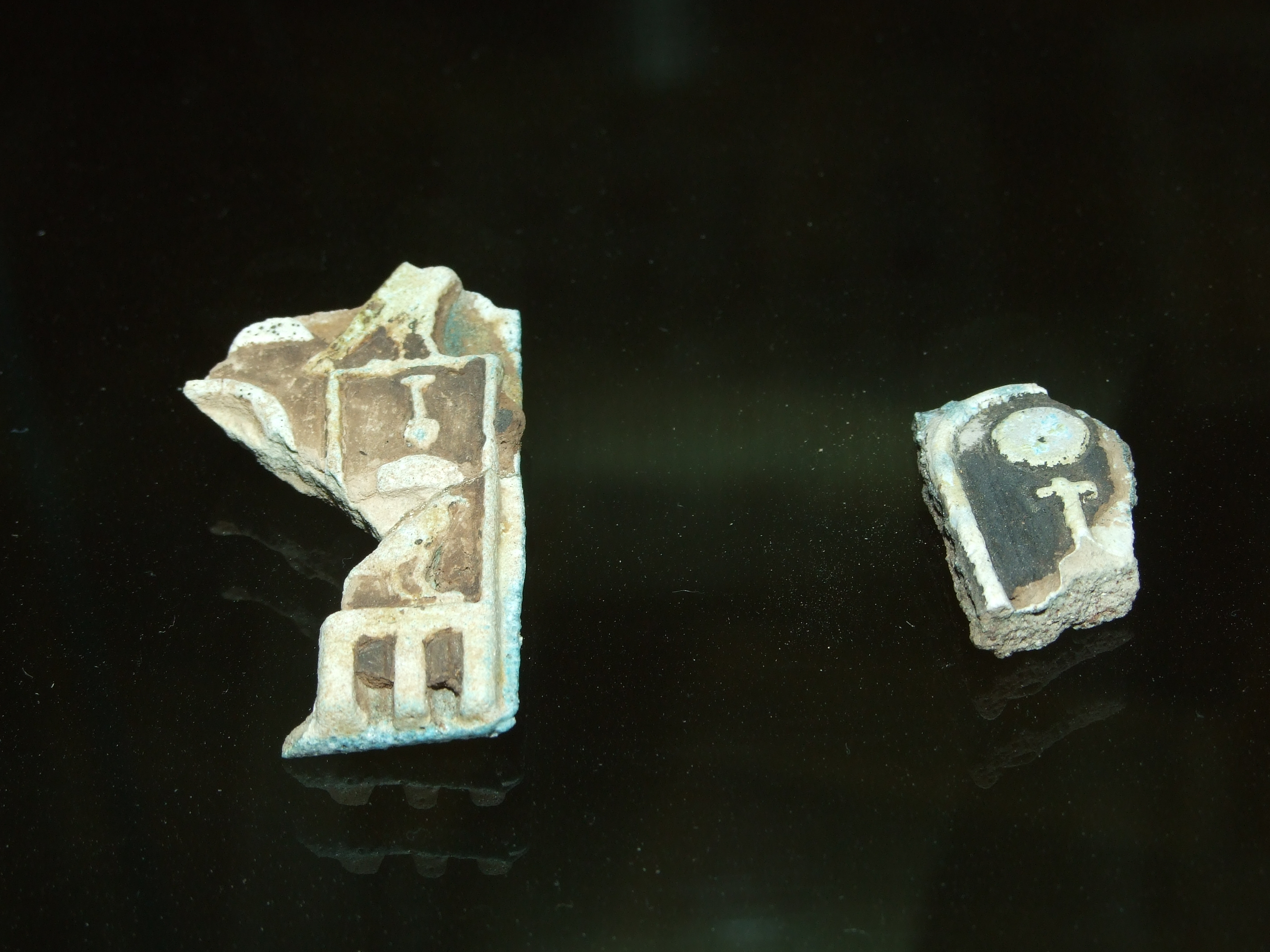 Náprstek Museum, National Museum in Prague